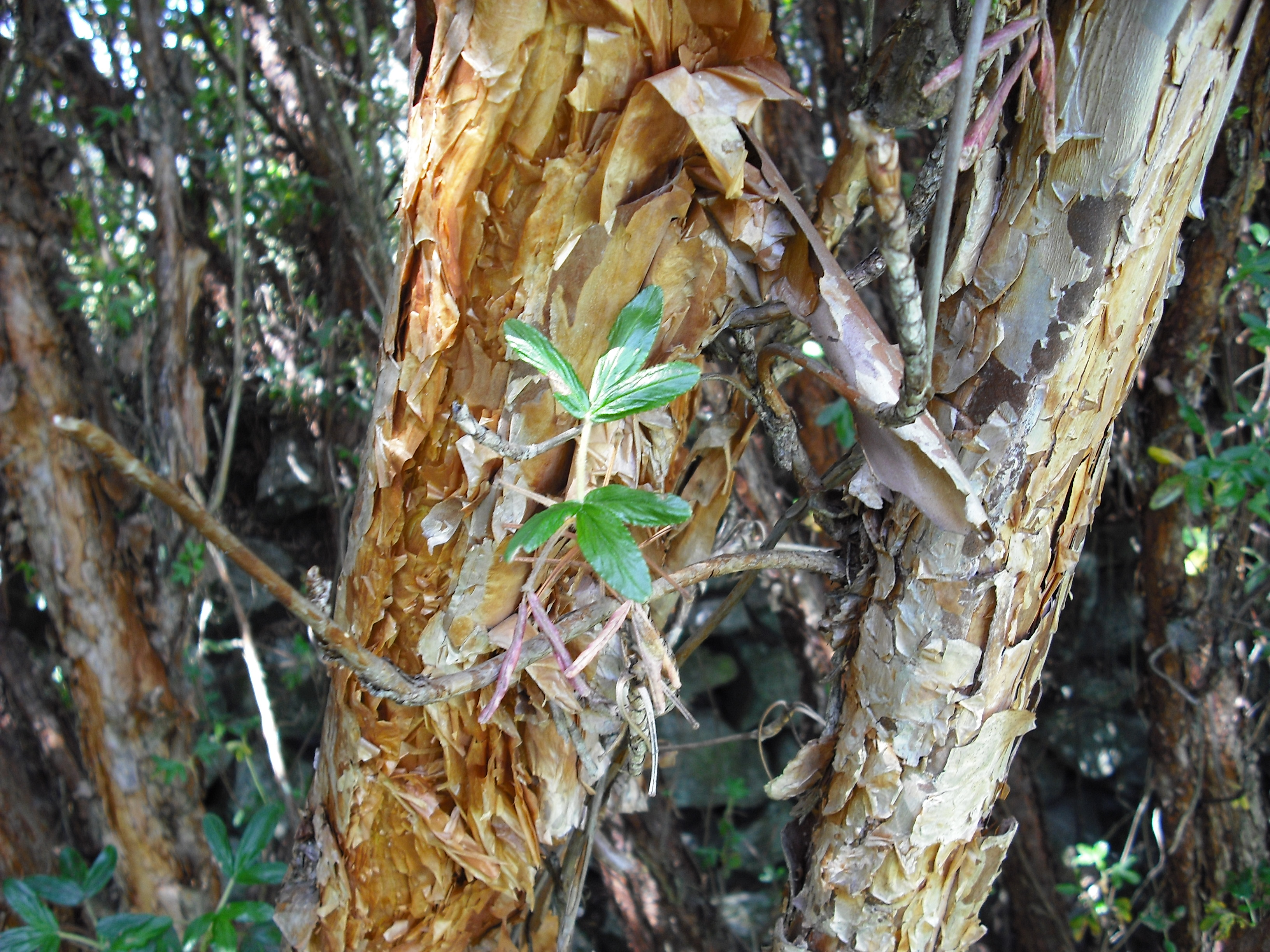 Polylepis racemosa trunk, National Parc of Huascarán, near Huaraz, Peru